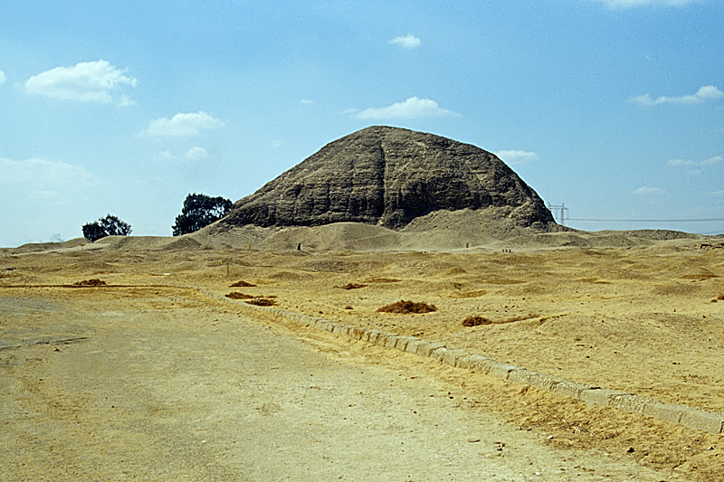 East side of the pyramid of Amenemhet III, Hawara, el-Fayyum, Egypt